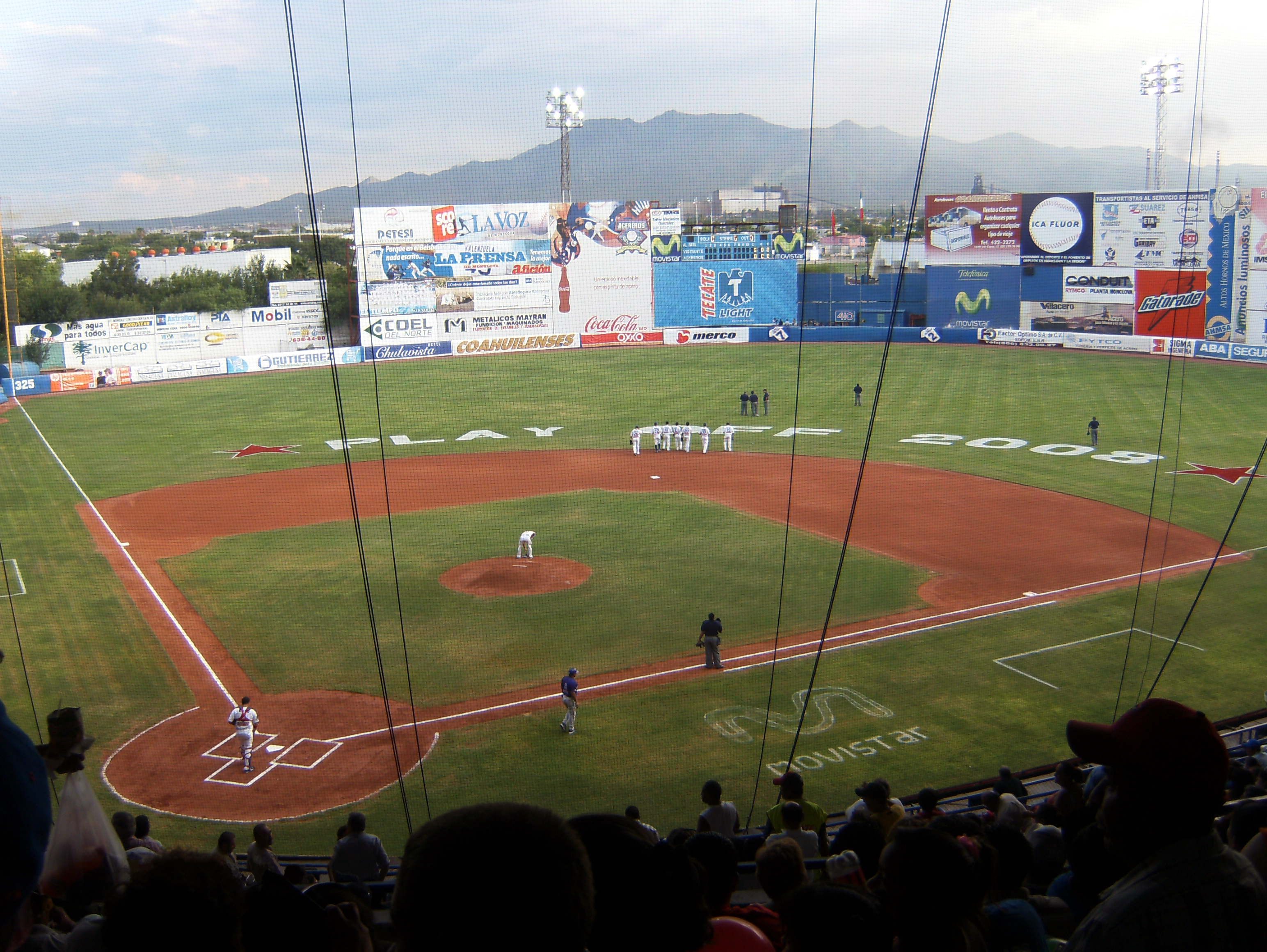 A photo of Monclova Stadium in August 2008